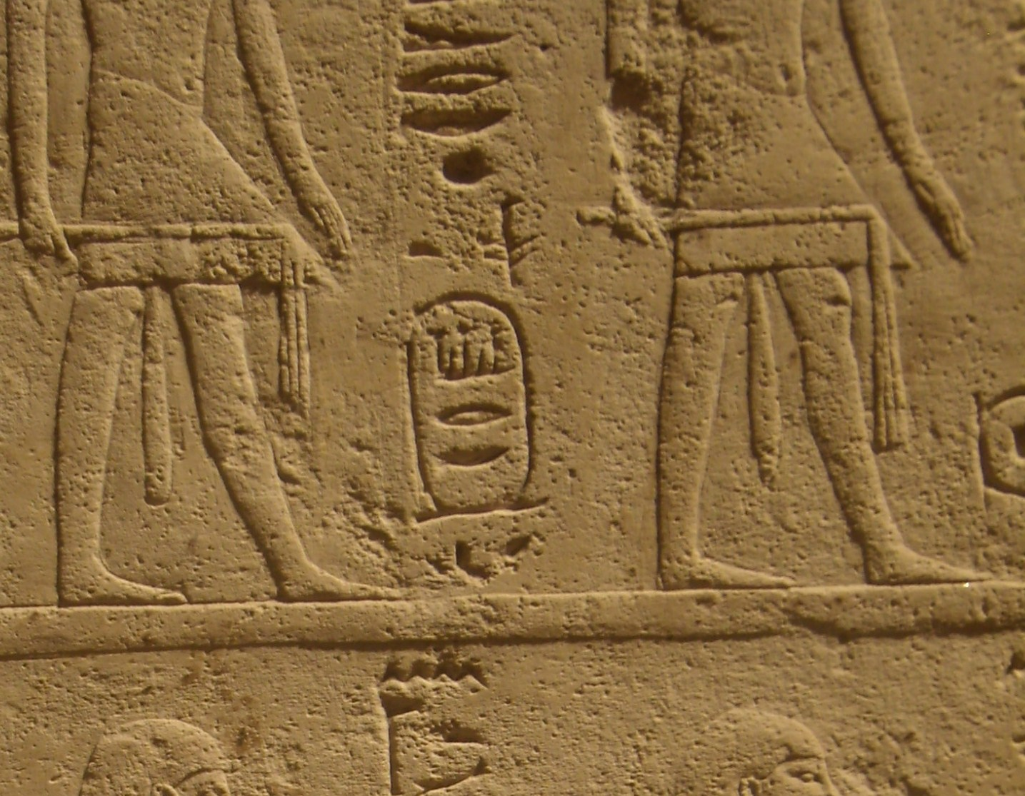 The name of the enigmatic Egyptian king Sharek, genealogy of the 21st Dynasty; relief, limestone, Egyptian Museum Berlin